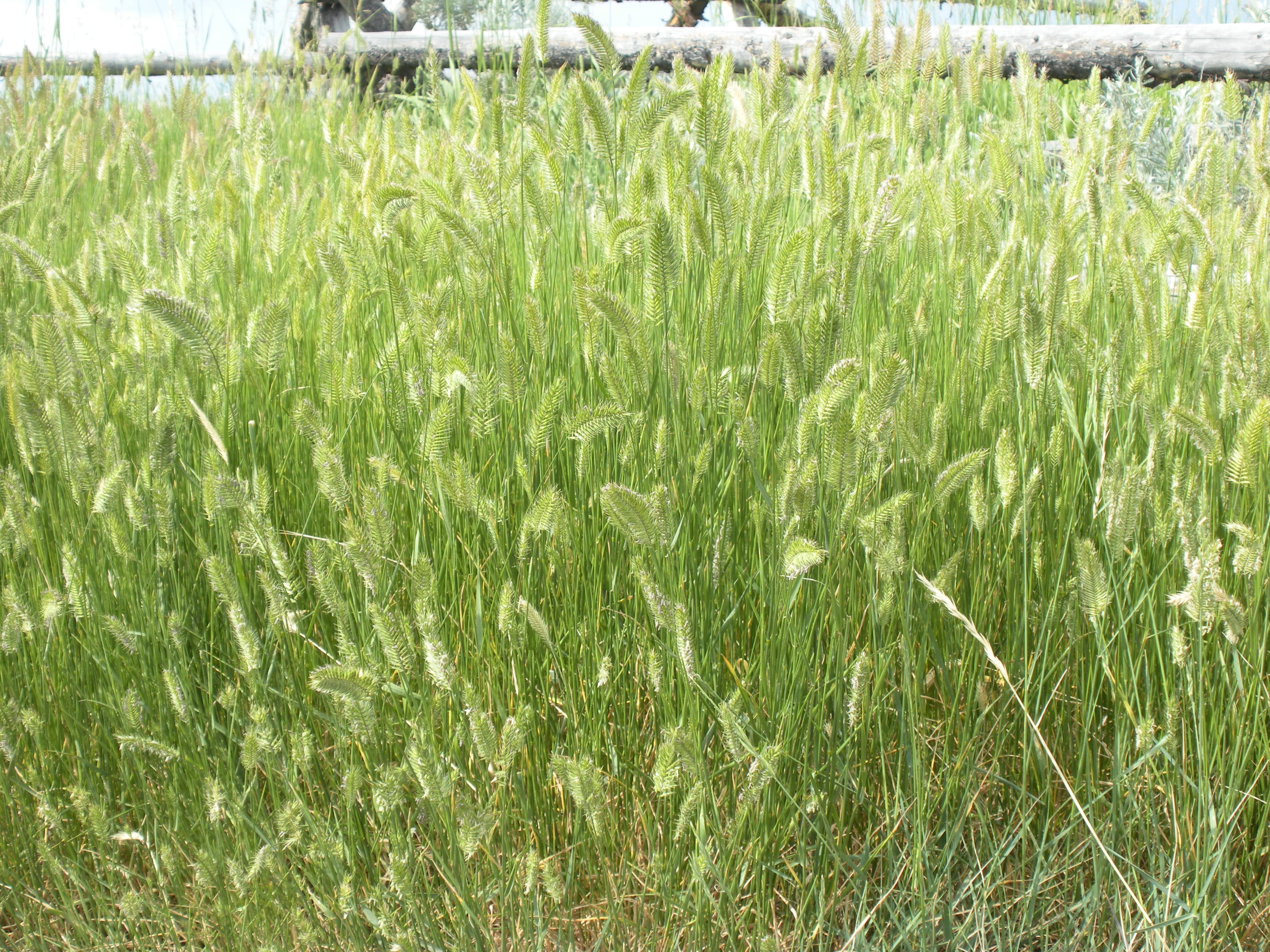 The dense spike with spikelets separated on short internodes and diverging at wide angles is characteristic of this perennial bunchgrass.